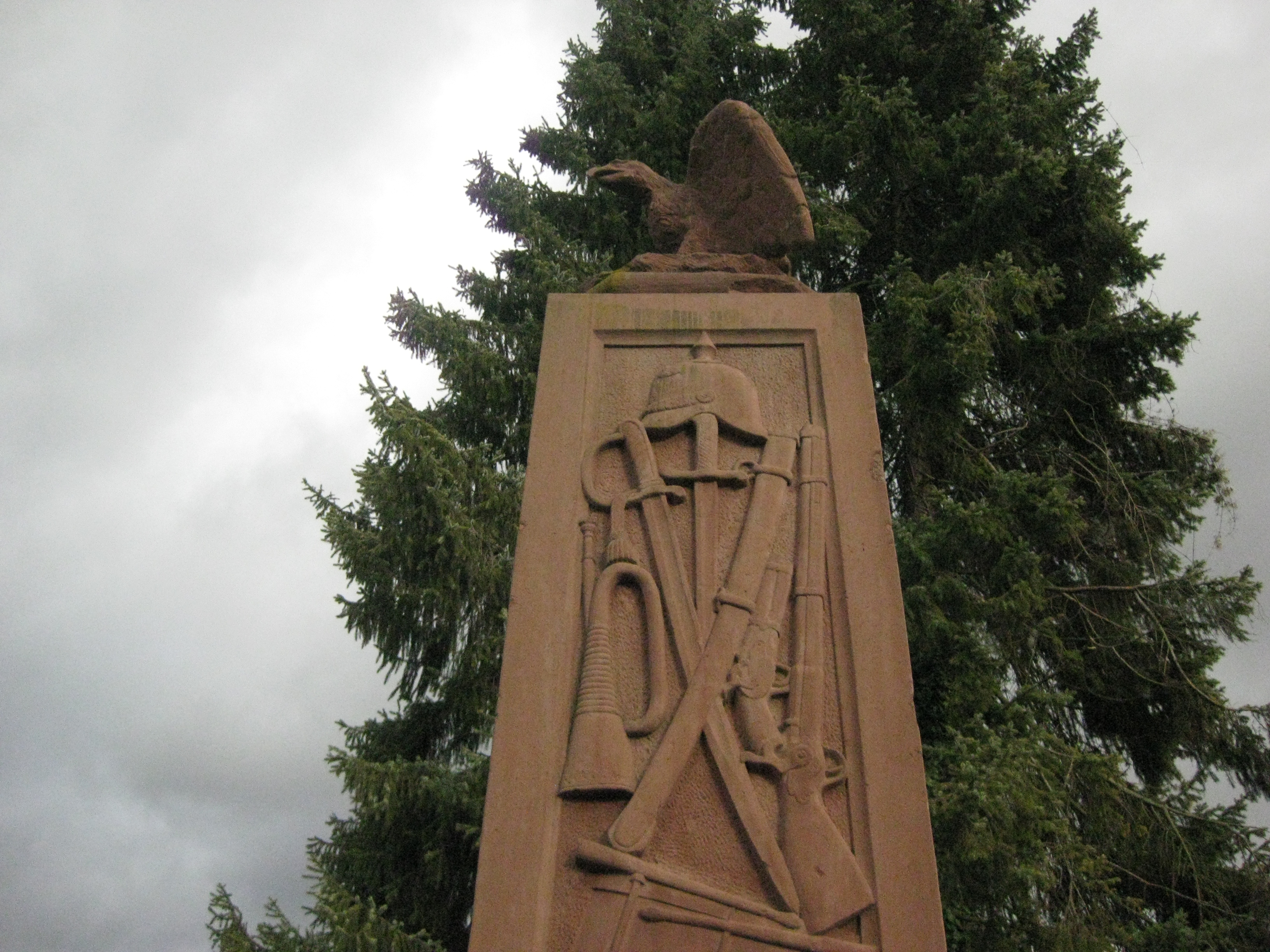 Kriegerdenkmal auf dem Friedhof in Eschelbronn